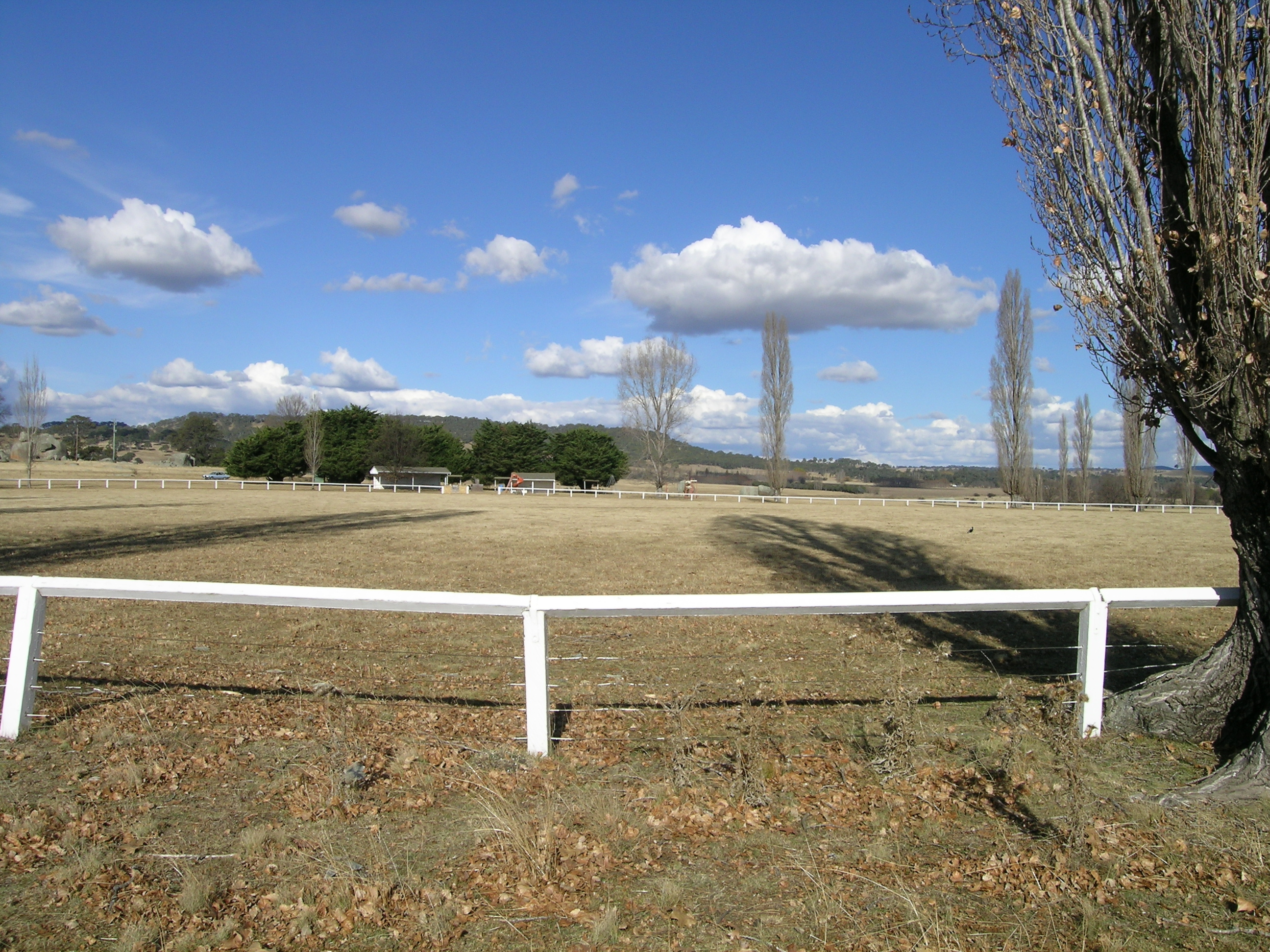 Sport and recreation ground, Stonehenge, NSW